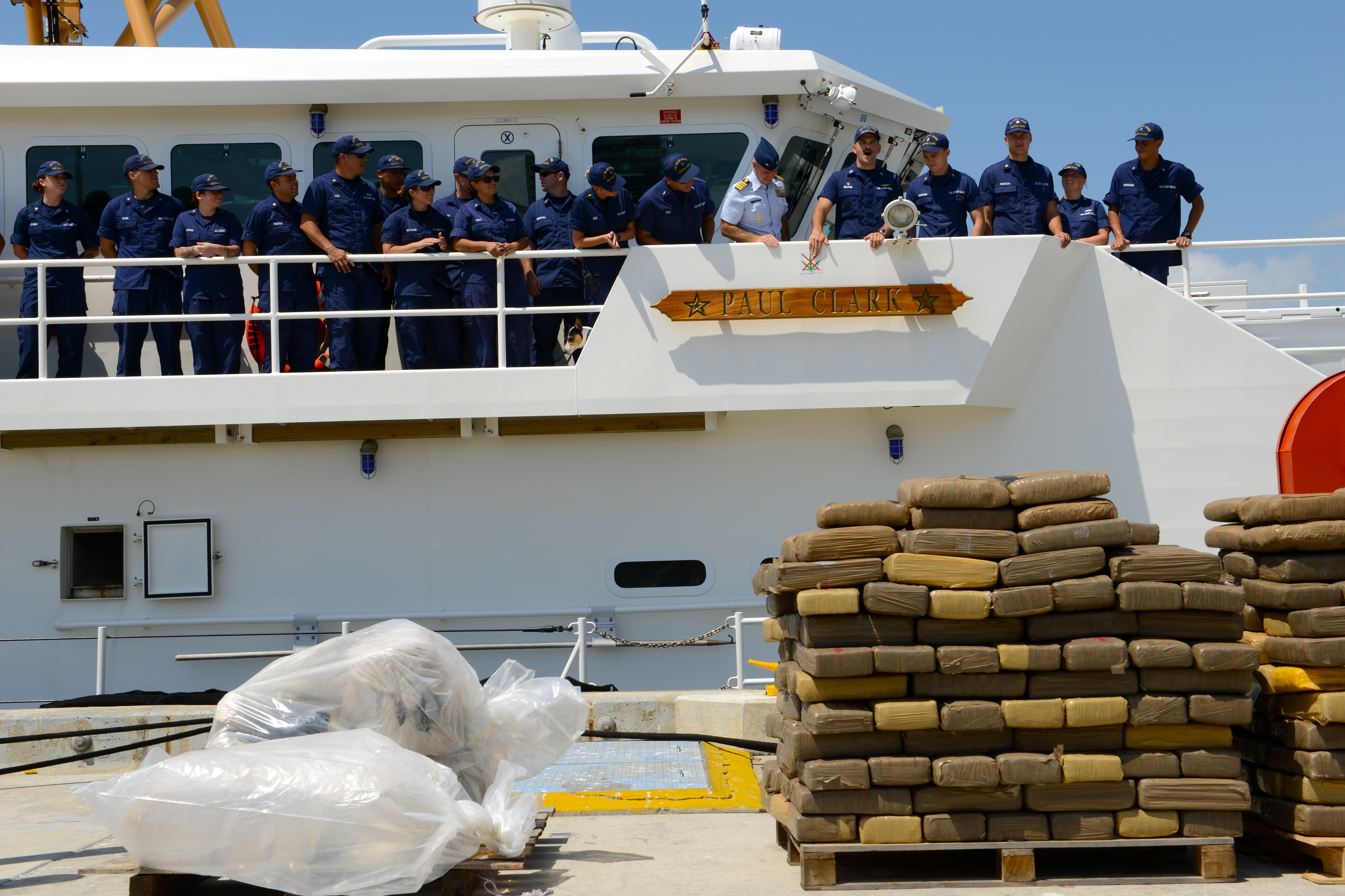 Original caption: “Coast Guard Cutter Paul Clark crew members offloads contraband Capt. Mark Fedor, chief of Law Enforcement for the Seventh Coast Guard District in Miami presents a marijuana bust sticker to the crew of the Coast Guard Cutter Paul Clark, for their interdiction of 220 pounds of marijuana May 2, during an offload at Base Miami Beach, Florida Friday. Coast Guard Cutters Charles Sexton and Paul Clark teamed up this week in the first drug interdictions performed aboard the 154-foot fast response cutters. (U.S. Coast Guard photo by Petty Officer 2nd Class Sabrina Laberdesque)”